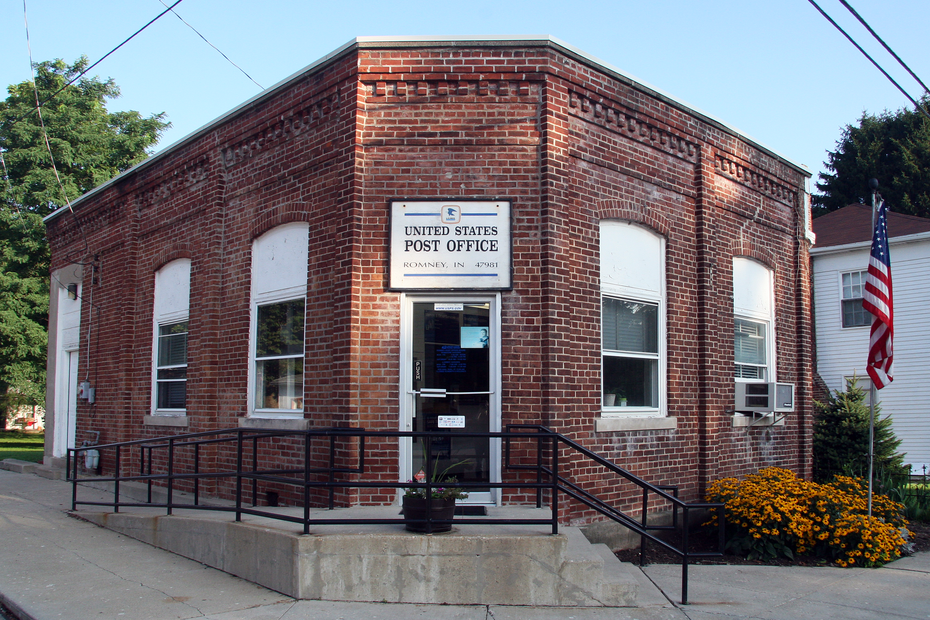 The U.S. post office in Romney, a small town in Tippecanoe County, Indiana. Photo looks northwest from the intersection of Main Street (U.S. Route 231) and High Street.